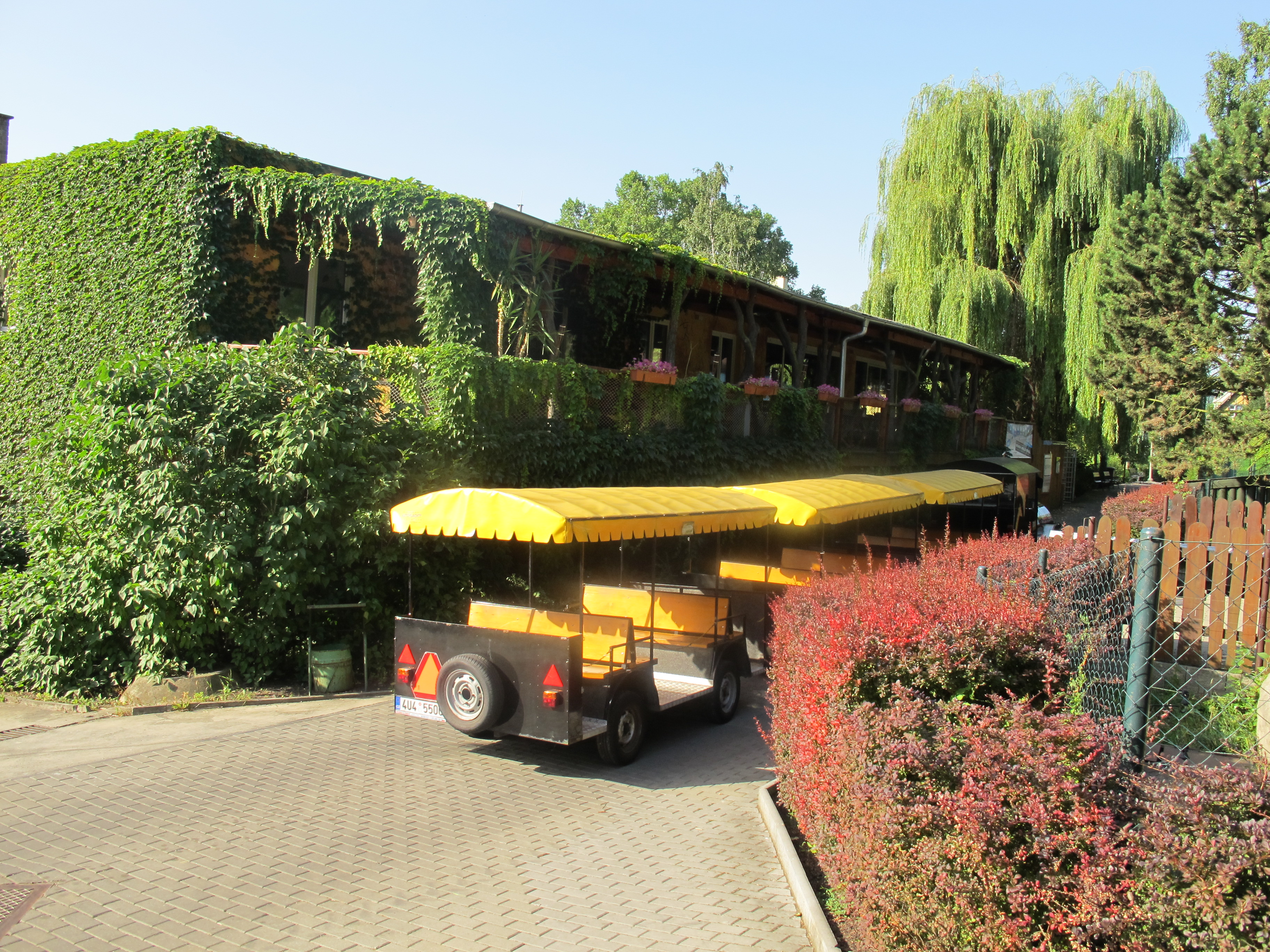 Terrace of restaurant Savana in Ústí nad Labem Zoo and Children's railway.